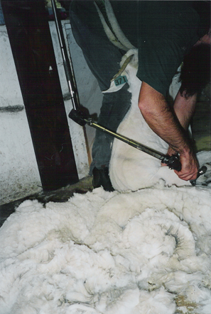 Author: Trish Esson. Shearing of a Cashmere Doe at Cashdown Goats Corindhap Vic Australa 2000, Fleece weight 785 grams, yield 57.7% giving 448 grams of down at 17.3 micron Shearer Bruce Macpherson. To be used to represent shearing cashmere goats.